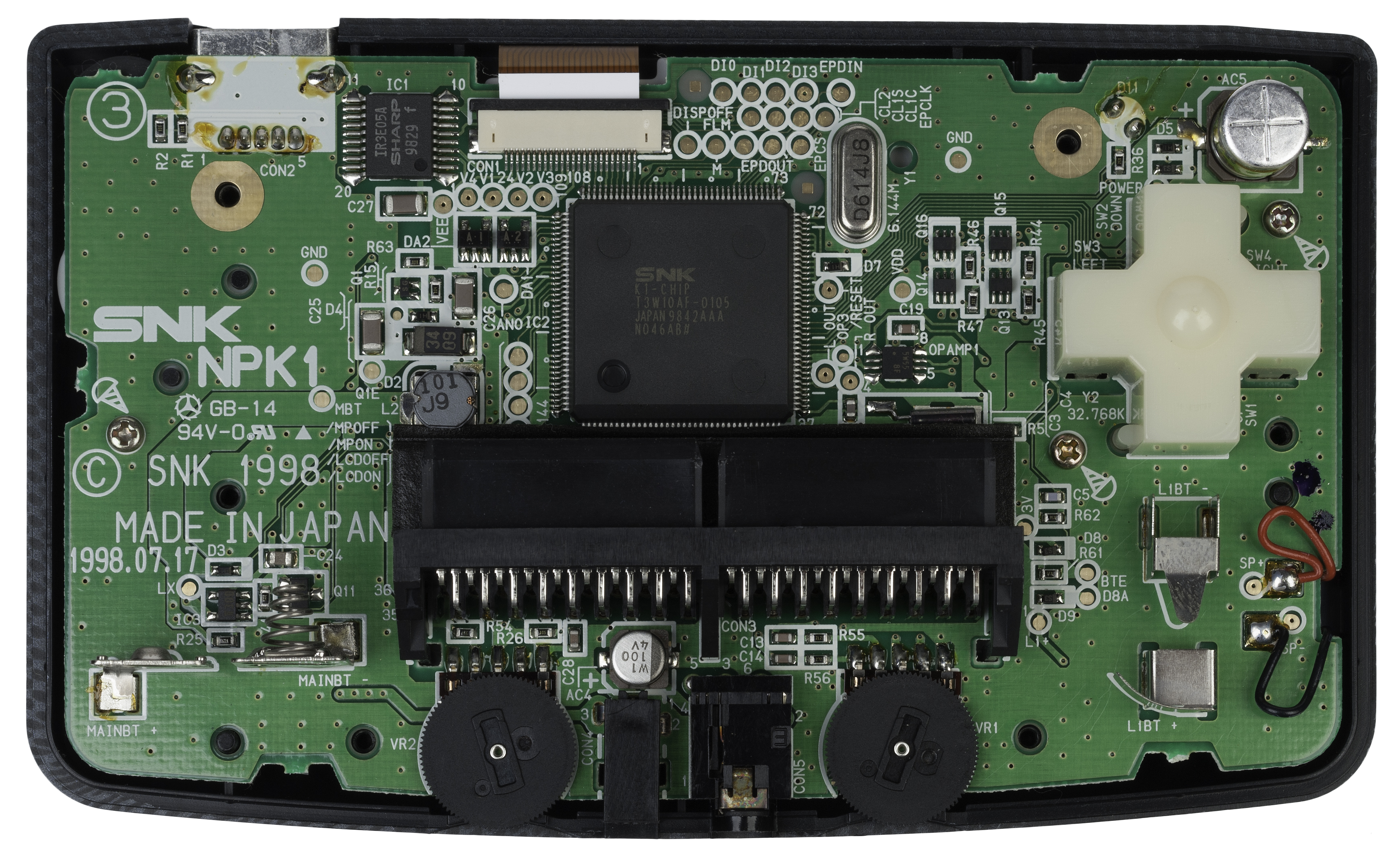 The Neo Geo Pocket, a handheld gaming console released by SNK in 1998. This is the motherboard for the console. The Neo Geo Pocket uses a SNK K1-Chip, further information on the CPU: T3W10AF-0105, JAPAN 9842AAA, N046AB#. The motherboard is listed as being NPK1, GB-1494V-0 and has a manufacture date of 1998-07-17